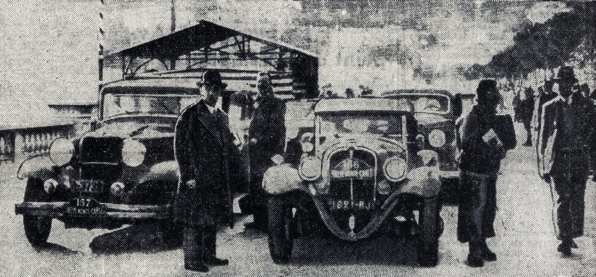 At the arrival at Albert quay? Entry #136 (car to the right) was a Delahaye 135 Figoni 3,312 ccm driven by Laury and Lucy Schell. Entry #157 (car to the left) is a Dodge 4,565 ccm driven by P. A. Brandstrup[1]